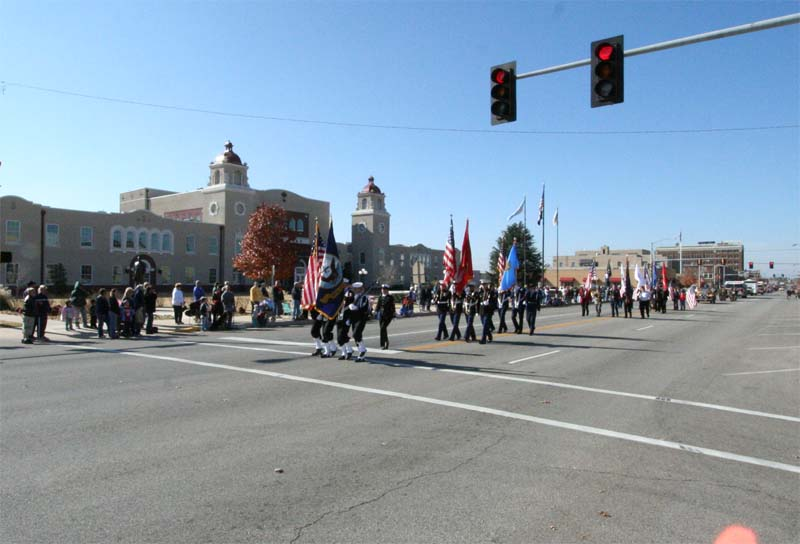 Veteran's Day parade down Grand Avenue in Ponca City in front of the Civic Center and town square taken by the contributor and put into Public Domain.